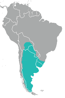 Range map for Geoffroy's Cat (Leopardus geoffroyi), made by me with help of Map depending on the range map at IUCN red list.